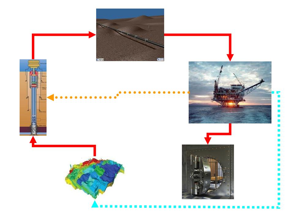 diagram of the required components of a basic integrated asset model